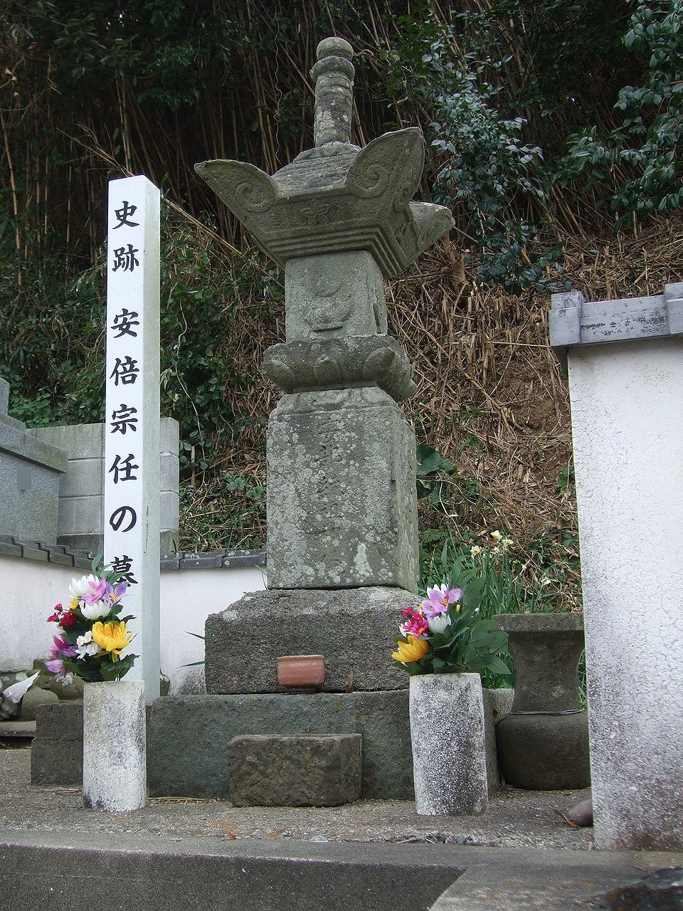 The tomb of Abe no Munetō, Ooshima, Munakata City, Fukuoka, Japan.